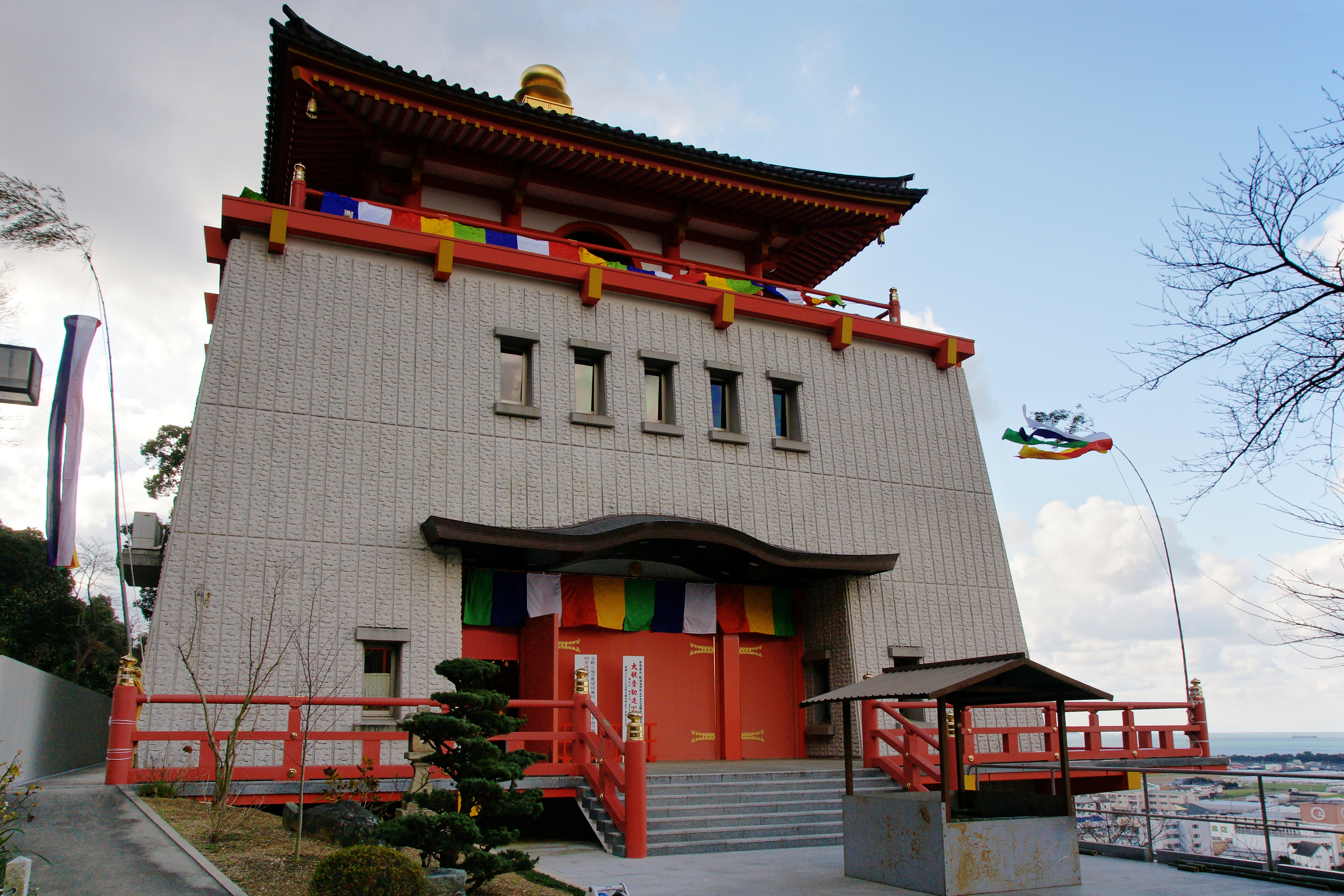 Kimiidera in Wakayama, Wakayama prefecture, Japan